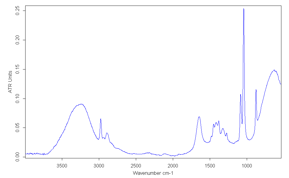 Mid Infrared Spectra of Ethanol. This spectra was acquired using a Bruker Tensor 27 FTIR spectrometer , with the ATR sampling Technique under the next parameters: Resolution: 2cm^-1 Sample: 24 scans Background: 24 scans ATR Spectrum MIR infrared source Beamsplitter : KBr Detector: RT-DLaTGS Accesory: Pike MIRacle Diamond As you can see there is a broad band between 3400-3200cm^-1, that band is related with -OH ( Hydroxyl group )